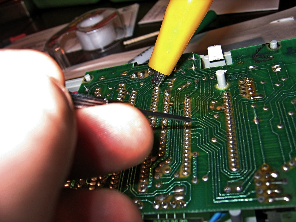 My photo, released under a creative commons license.